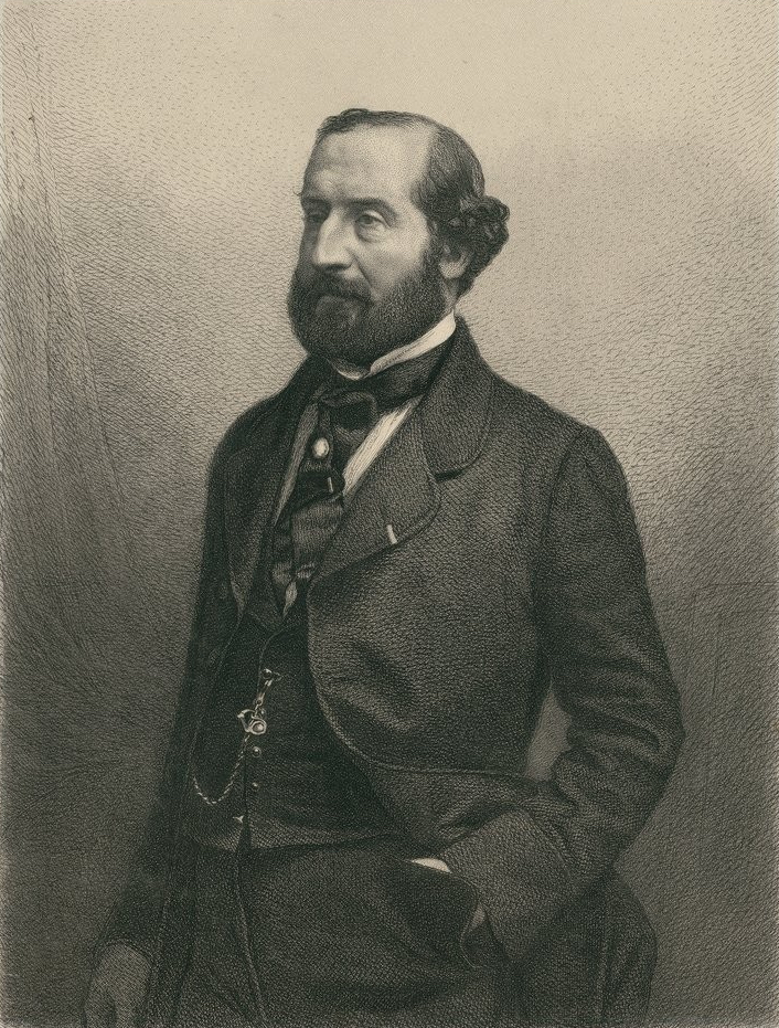 Portrait of French writer and playwright Émile Augier (1820-1889) by Alphonse Charles Masson (1814-1898)